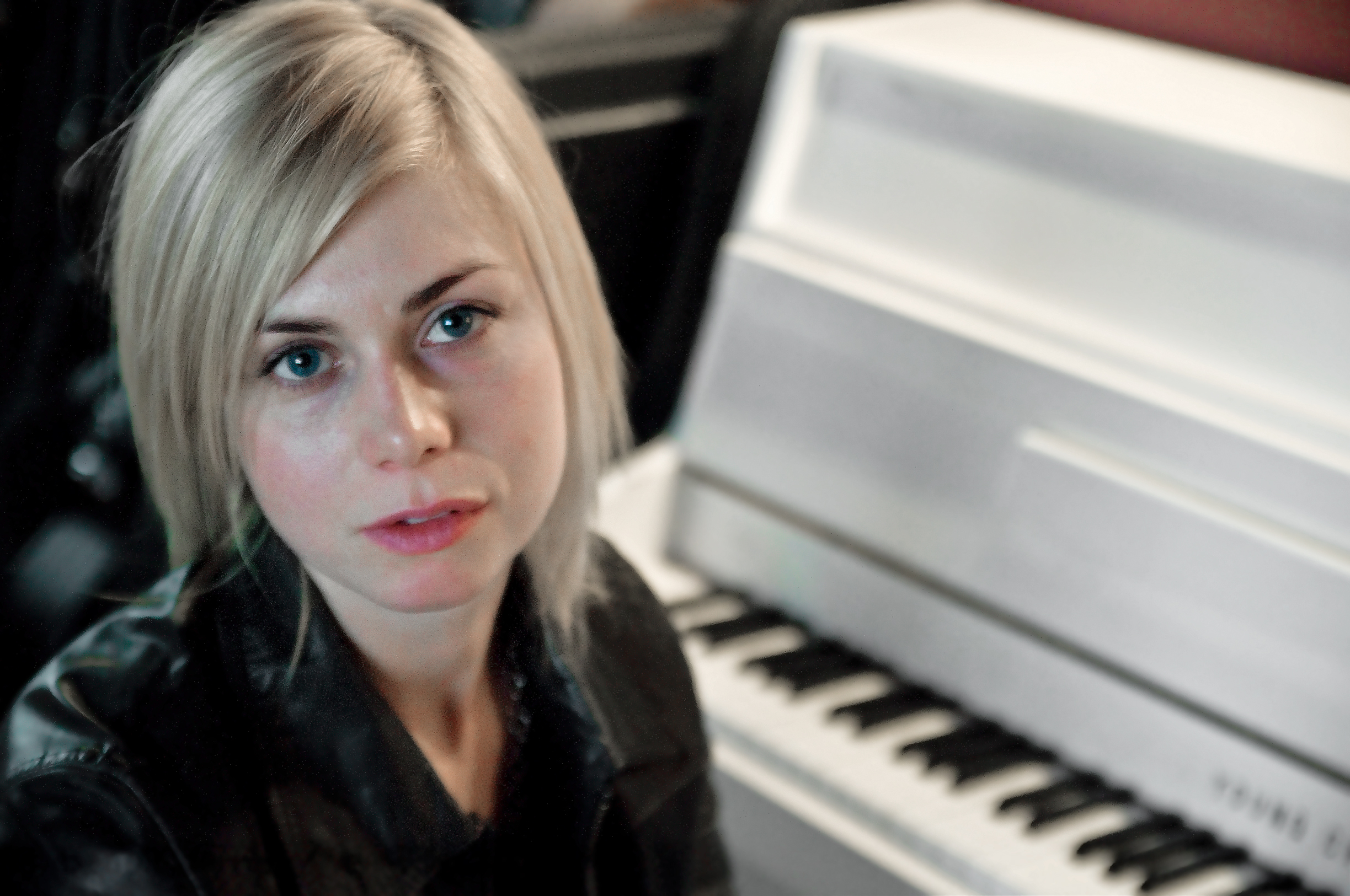 Swedish singer-songwriter Anna Ternheim during a performance at a video session for the French webzine Le Cargo.